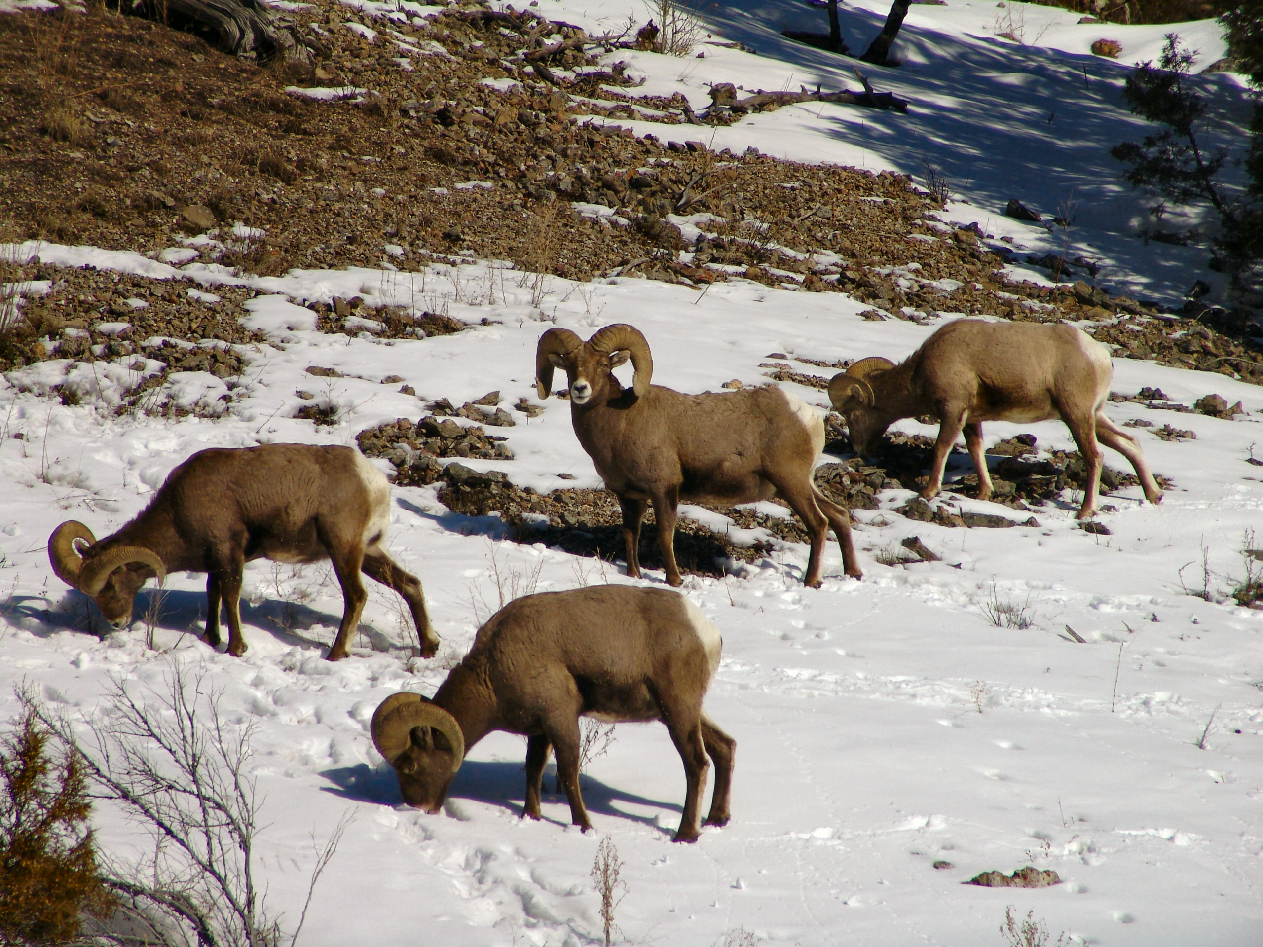 These bighorn sheep were grazing beside the road between Big Sky and Yellowstone National Park